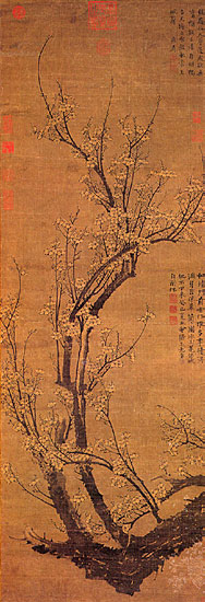 Plum Blossoms in Early Spring, by Chinese artist Wang Mian, Yuan Dynasty period, ink on silk.